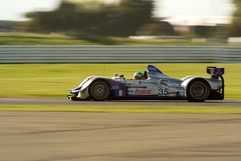 Saulnier Racing's Courage LC75-AER at the 2007 1000 km of Silverstone.